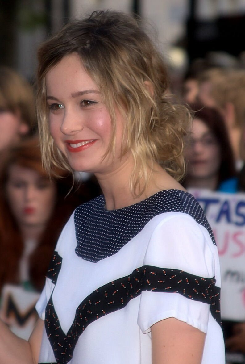 American actress and singer Brie Larson